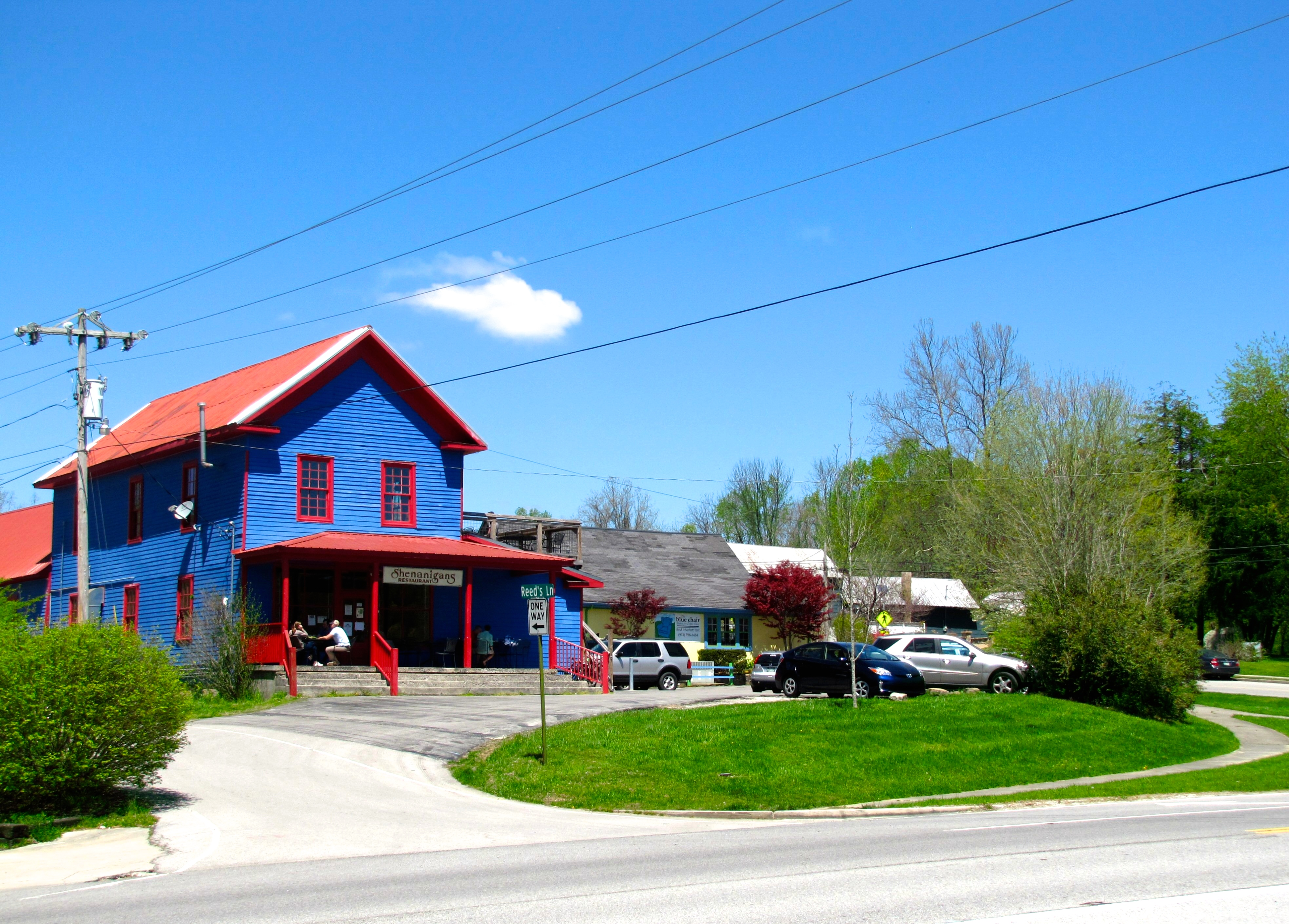 Business along U.S. Route 41A in Sewanee, Tennessee, United States.